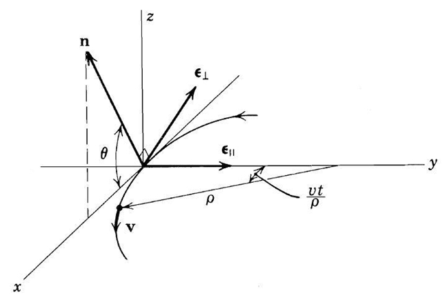 Circumference_trajectory